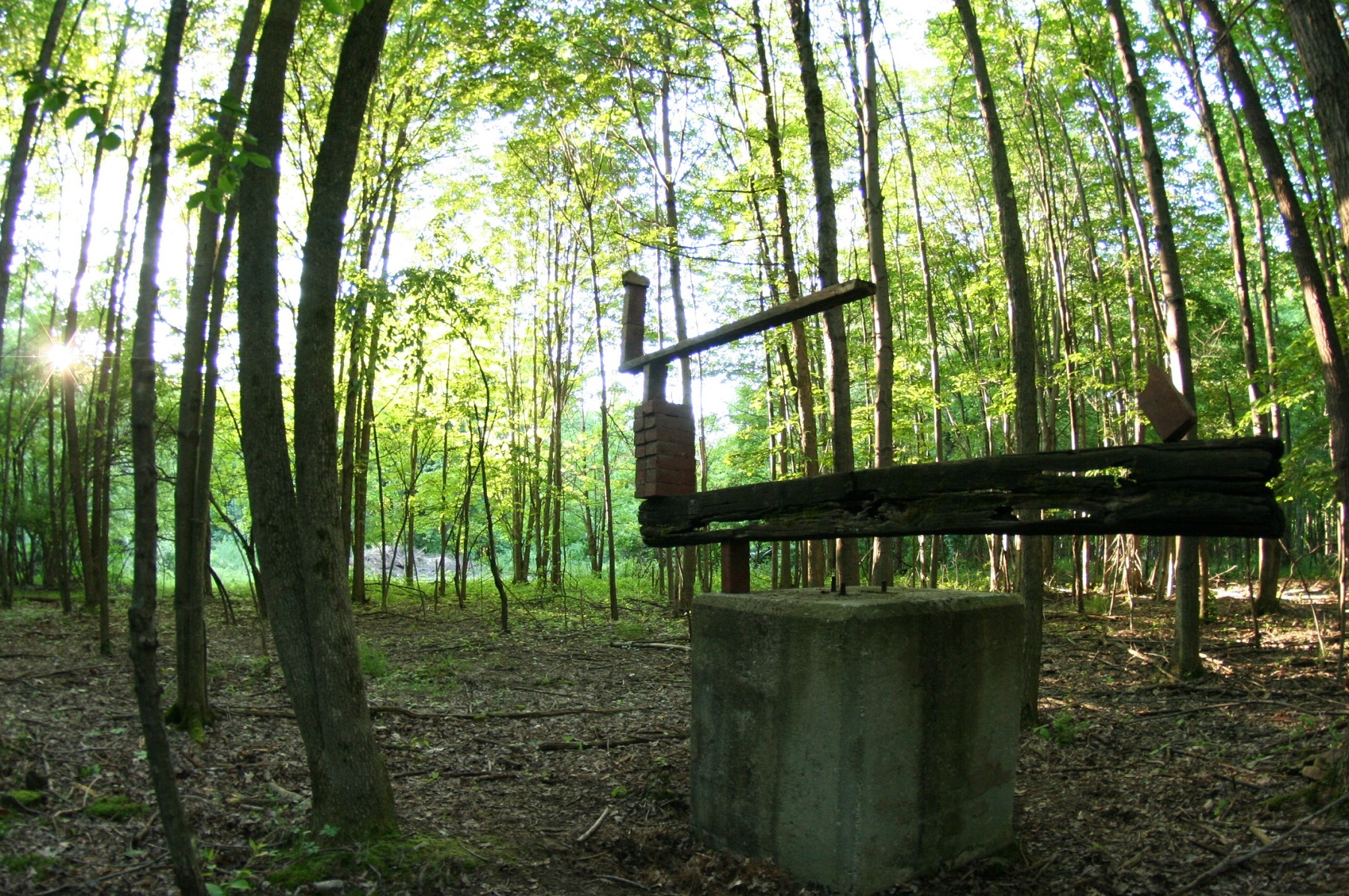 A "rock balance" sculpture installed in an Ohio forest (U.S.). The precarious nature of the sculpture makes it non-durable, and the time-span of its existence is uncertain.